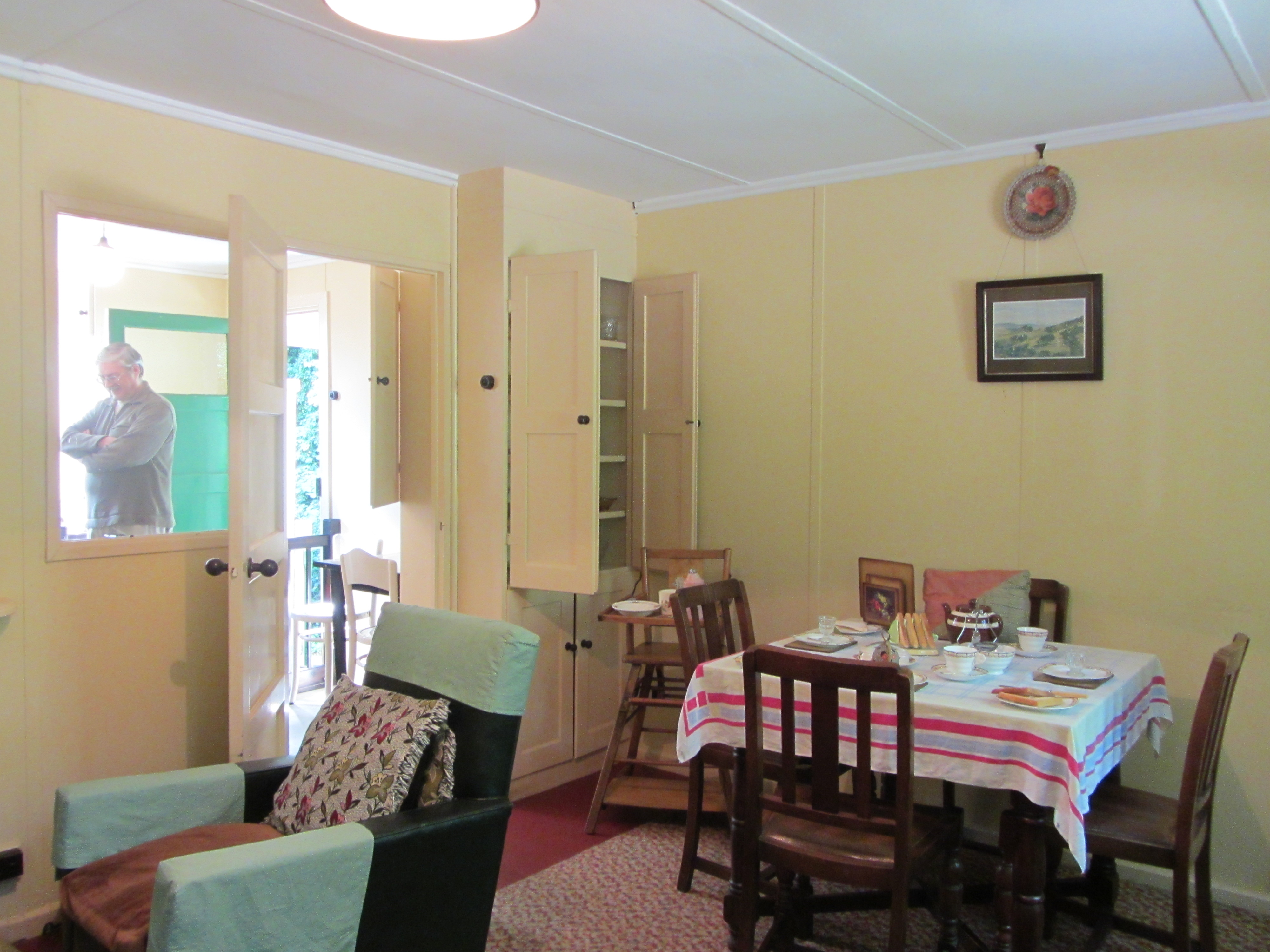 Living room of the prefab at St Fagans National History Museum, Cardiff